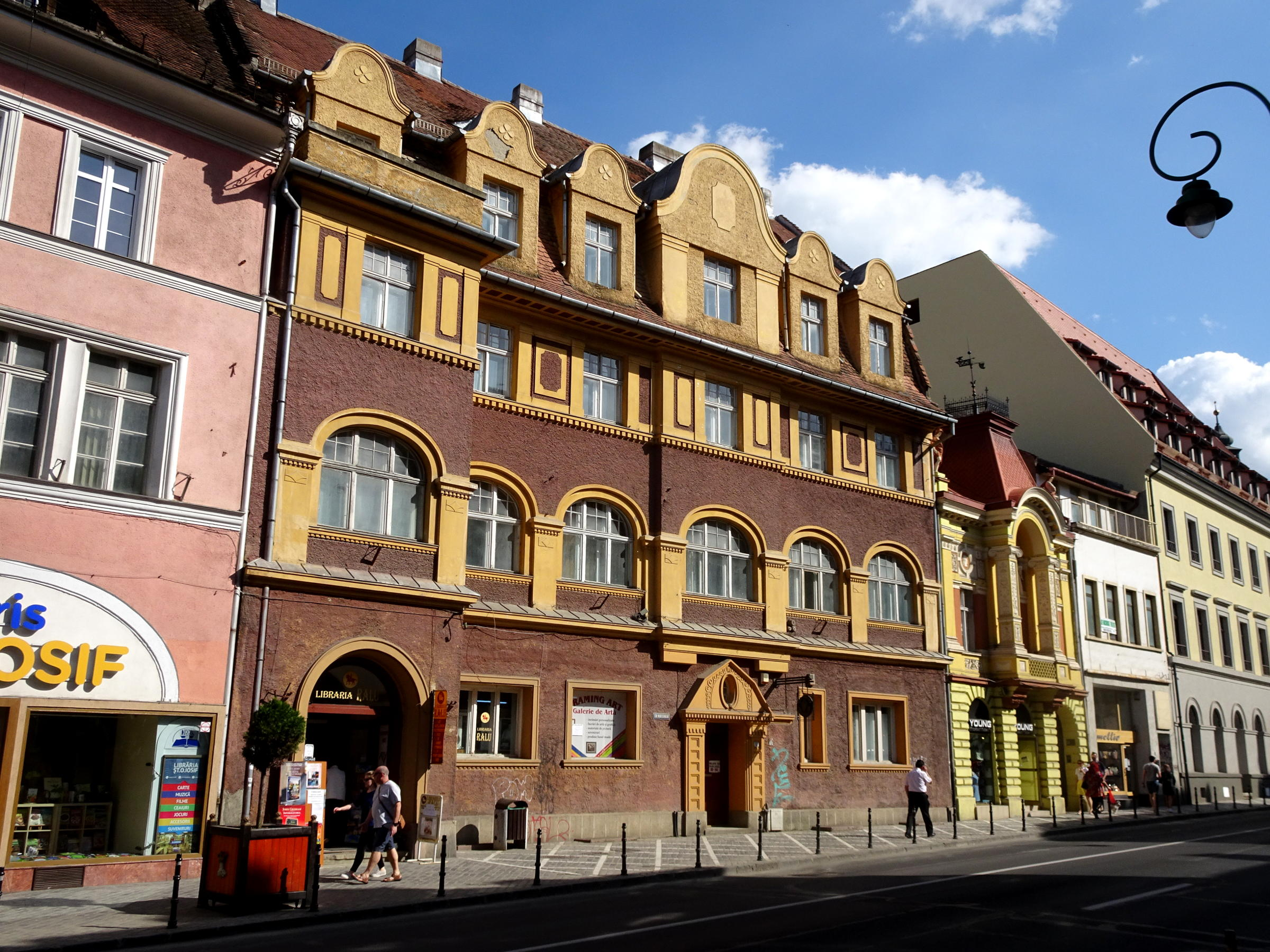 Str Muresenilor, house number 12 (in center), Brasov, Romania